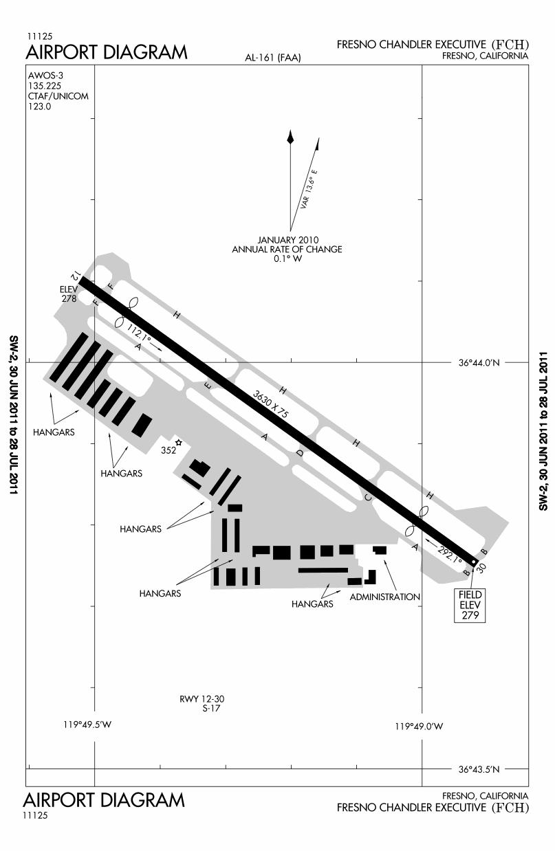 FAA airport diagram for FCH (Fresno Chandler Executive Airport) in California, United States.